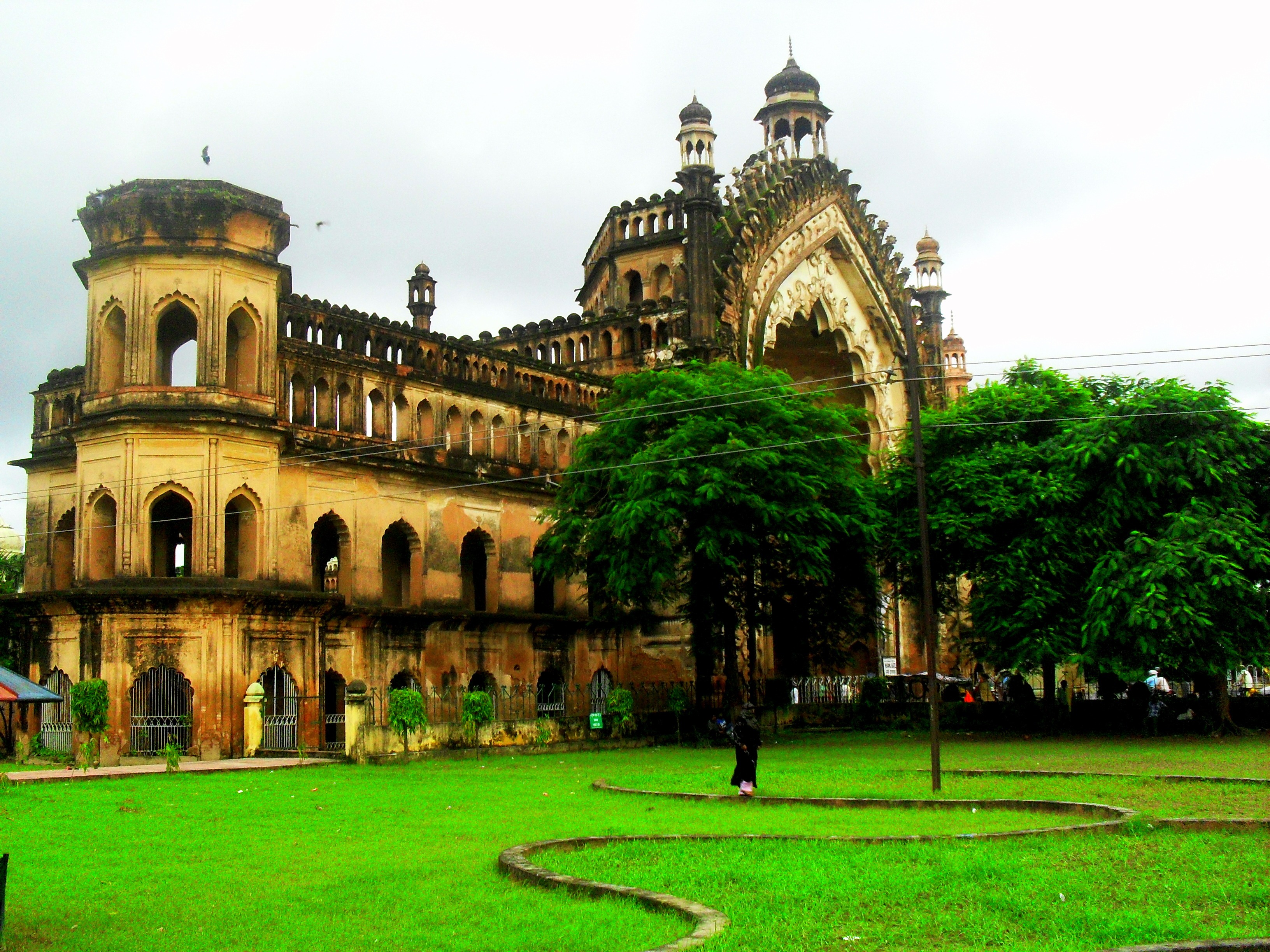 The Rumi Darwaza, in Lucknow, Uttar Pradesh, India, is an imposing gateway which was built under the patronage of Nawab Asaf-Ud-dowlah in 1784. It is an example of Awadhi architecture.